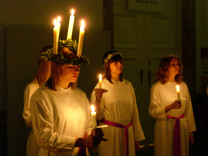 Swedish girls singing during Saint Lucy's Day celebrations in Vienna, Austria.